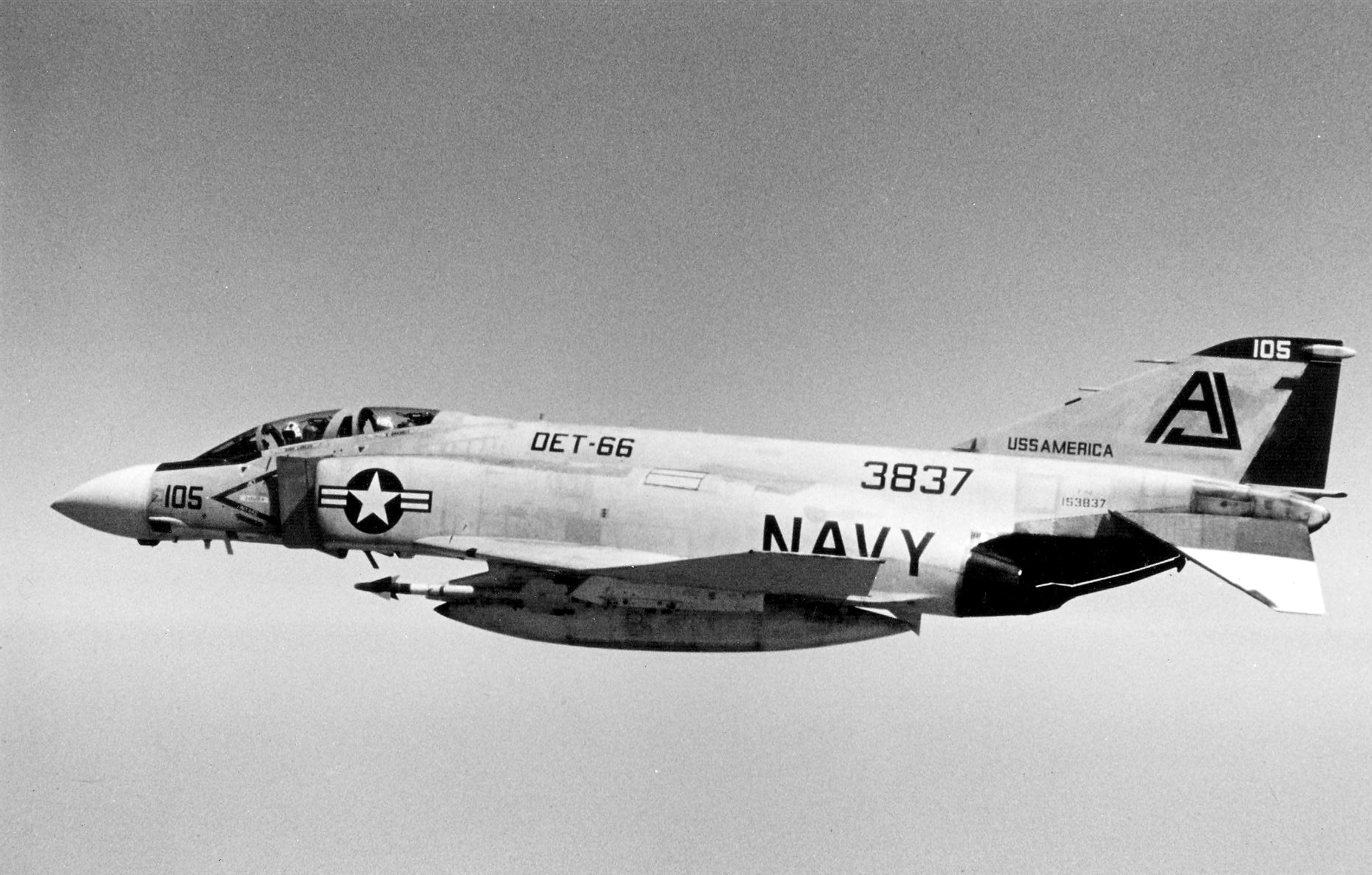 A U.S. Navy McDonnell F-4J-30-MC Phantom II (BuNo 153837) from Fighter Squadron VF-101 Det.66 Grim Reapers in flight. VF-101 Det.66 was assigned to Carrier Air Wing 8 (CVW-8) aboard the aircraft carrier USS America (CVA-66) for a deployment to the Mediterranean Sea from 6 July to 16 December 1971.